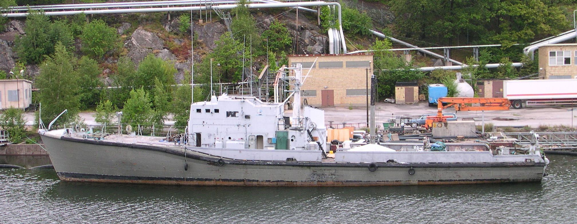 Former Swedish Navy minesweeper HMS Hasslö (M64) in Nacka, Stockholm July 2005.